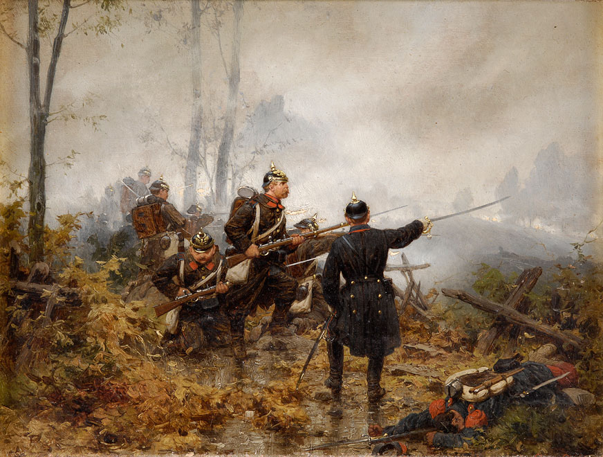 Christian Sell (1831–1883): The 17th (4th Westphalian) Infantry Regiment of Prussia, probably at the Battle of Le Mans.